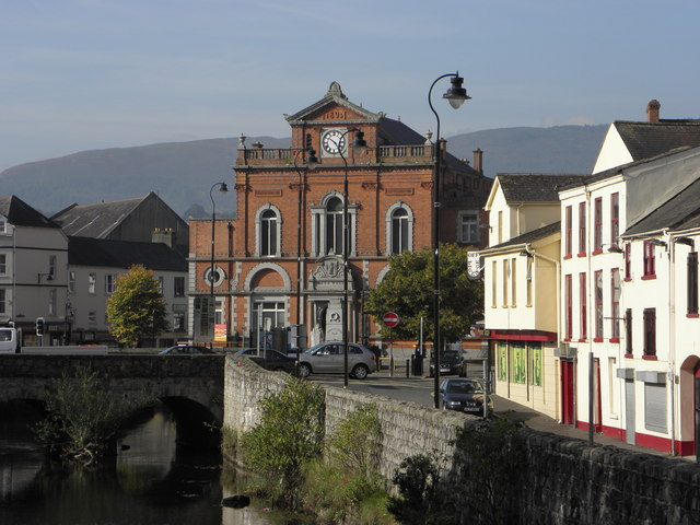 Newry Town Hall